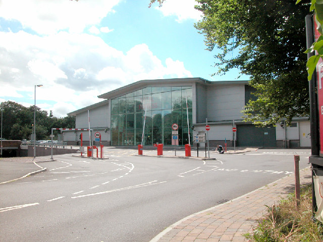 Total Fitness Chester. On Liverpool Road. Built on the site of a former coalyard and builders merchant, alongside the former Mickle Trafford to Deeside railway track